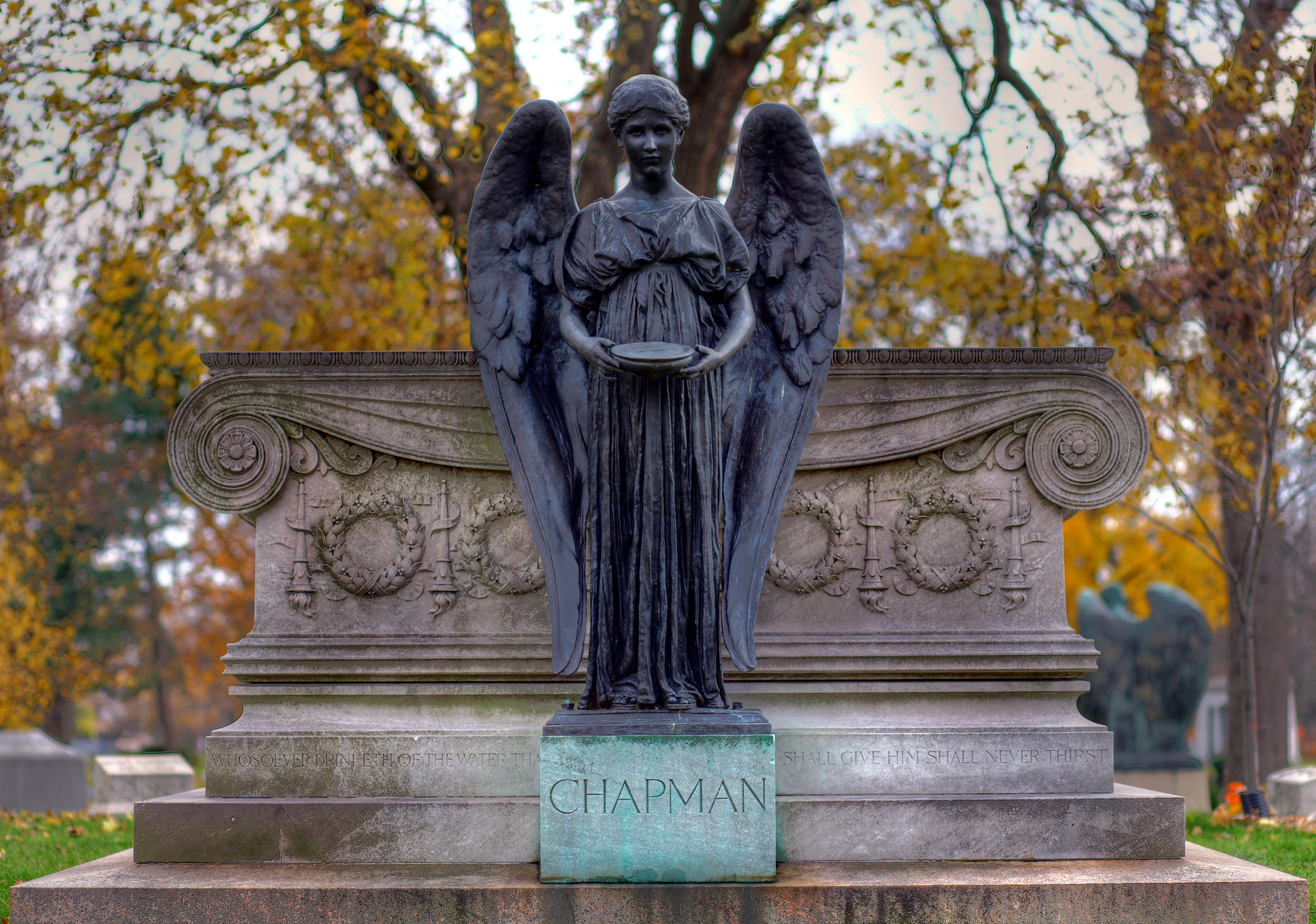 T.A. Chapman Memorial as designed by Daniel Chester French. Located in the Forest Home Cemetery in Milwaukee, WI.